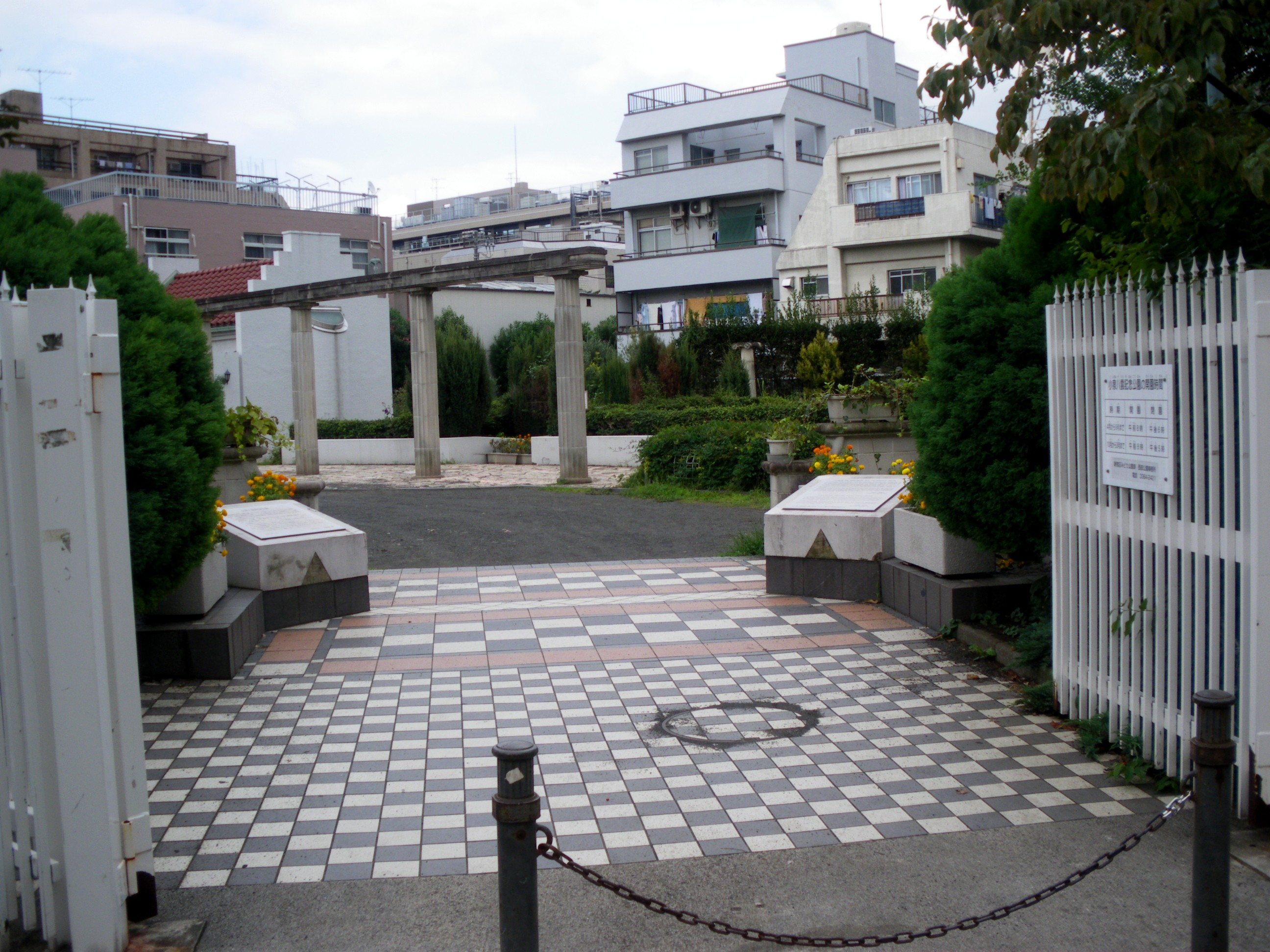 Koizumi Yakumo Memorial Park(Okubo,Shinjuku,Tokyo)